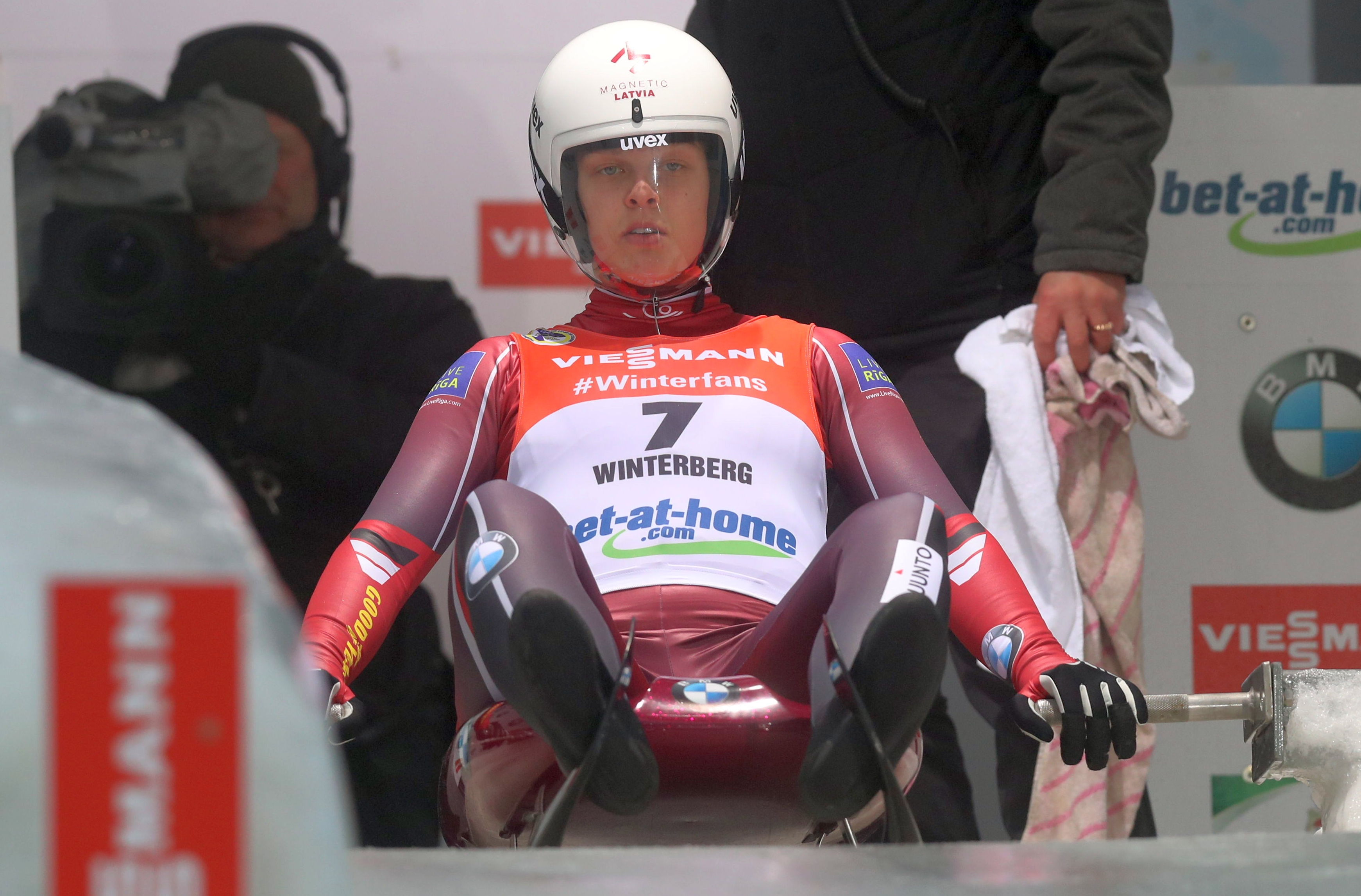 Women's race at the FIL World Luge Championships 2019 in Winterberg